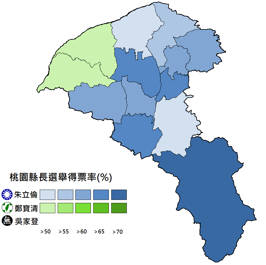 Taoyuan magistrate election 2005，source: cec[1]